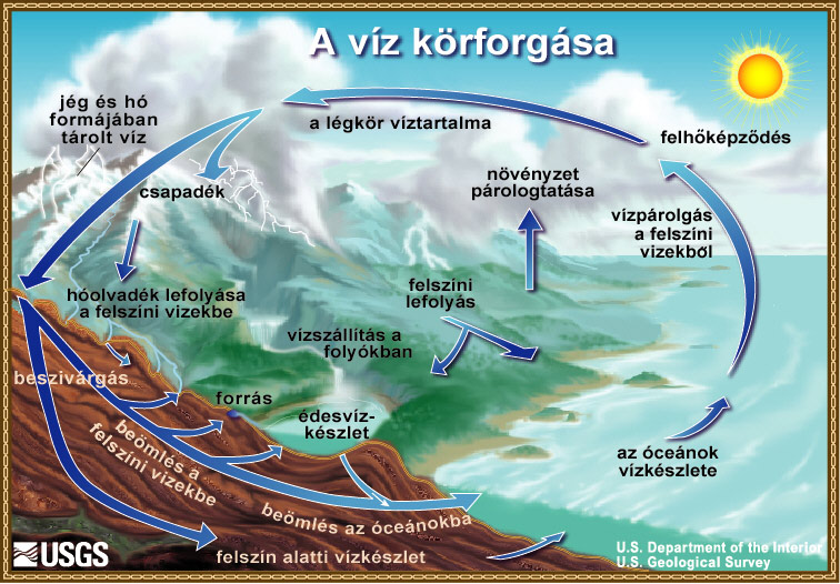 Water-Cycle Diagram (Hungarian)